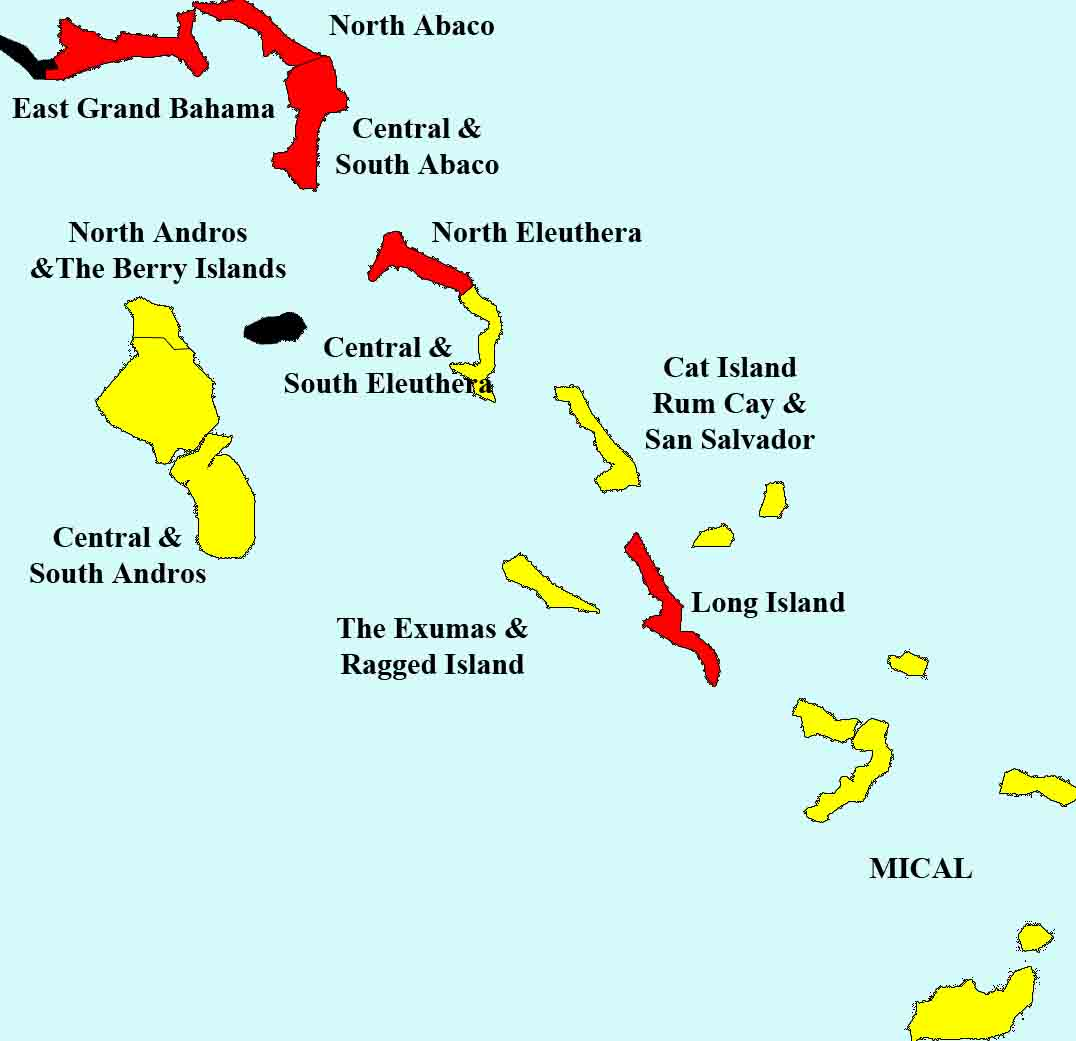 Bahamas Elections 2012 Family Islands Results